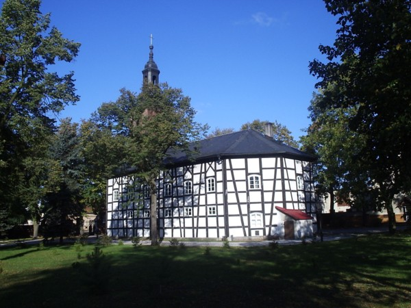 Church in Piaski, Poland